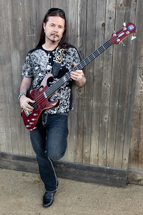 John Payne with his Browns Guitar Factory Special Edition bass guitar.